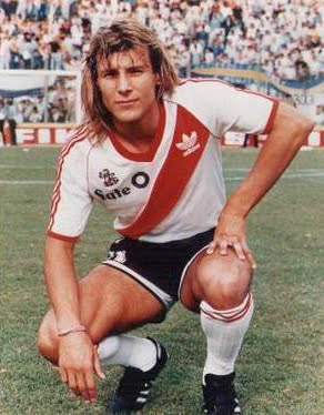 Claudio Caniggia while playing for River Plate.